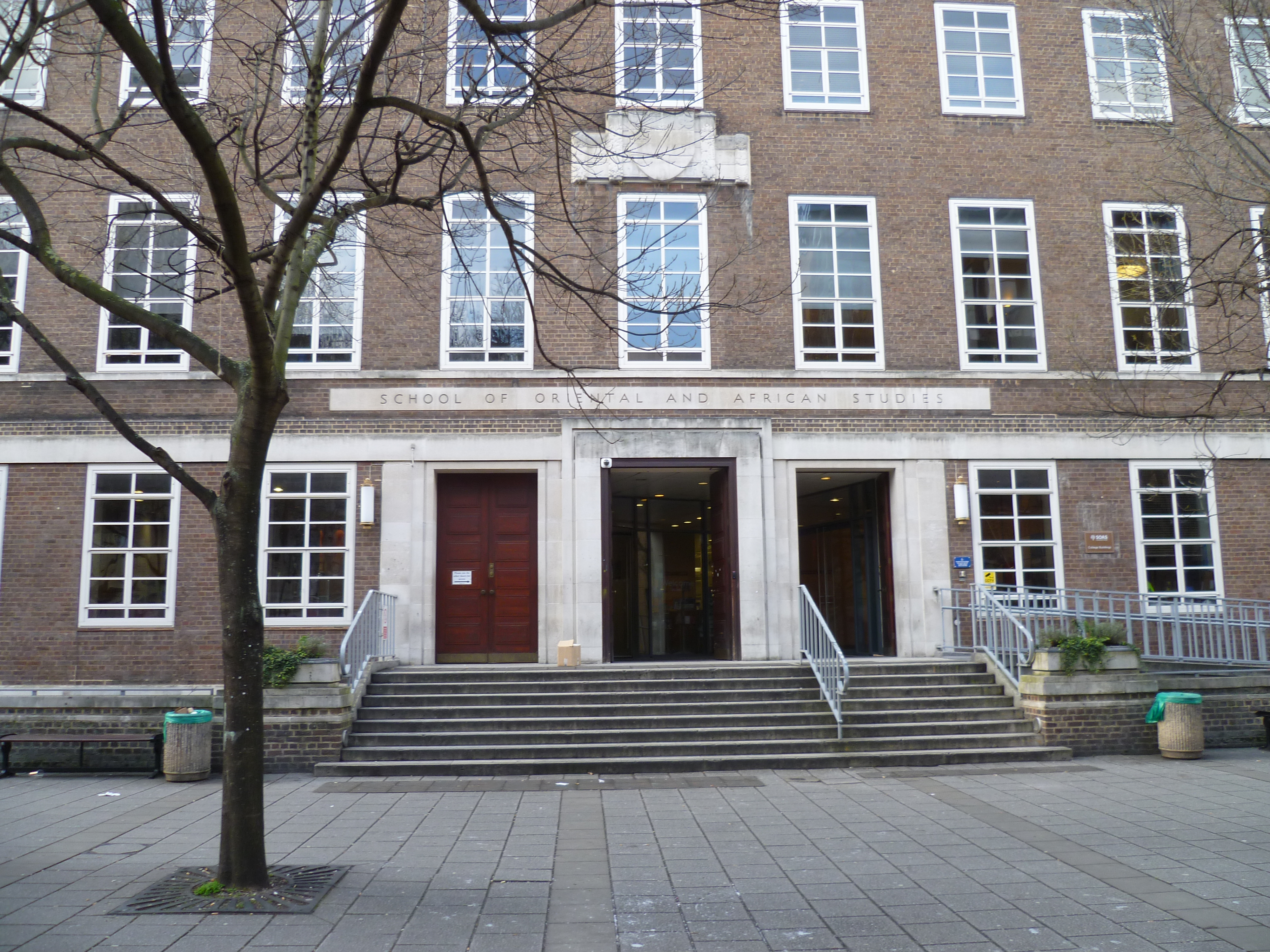 School of Oriental & African Studies, London